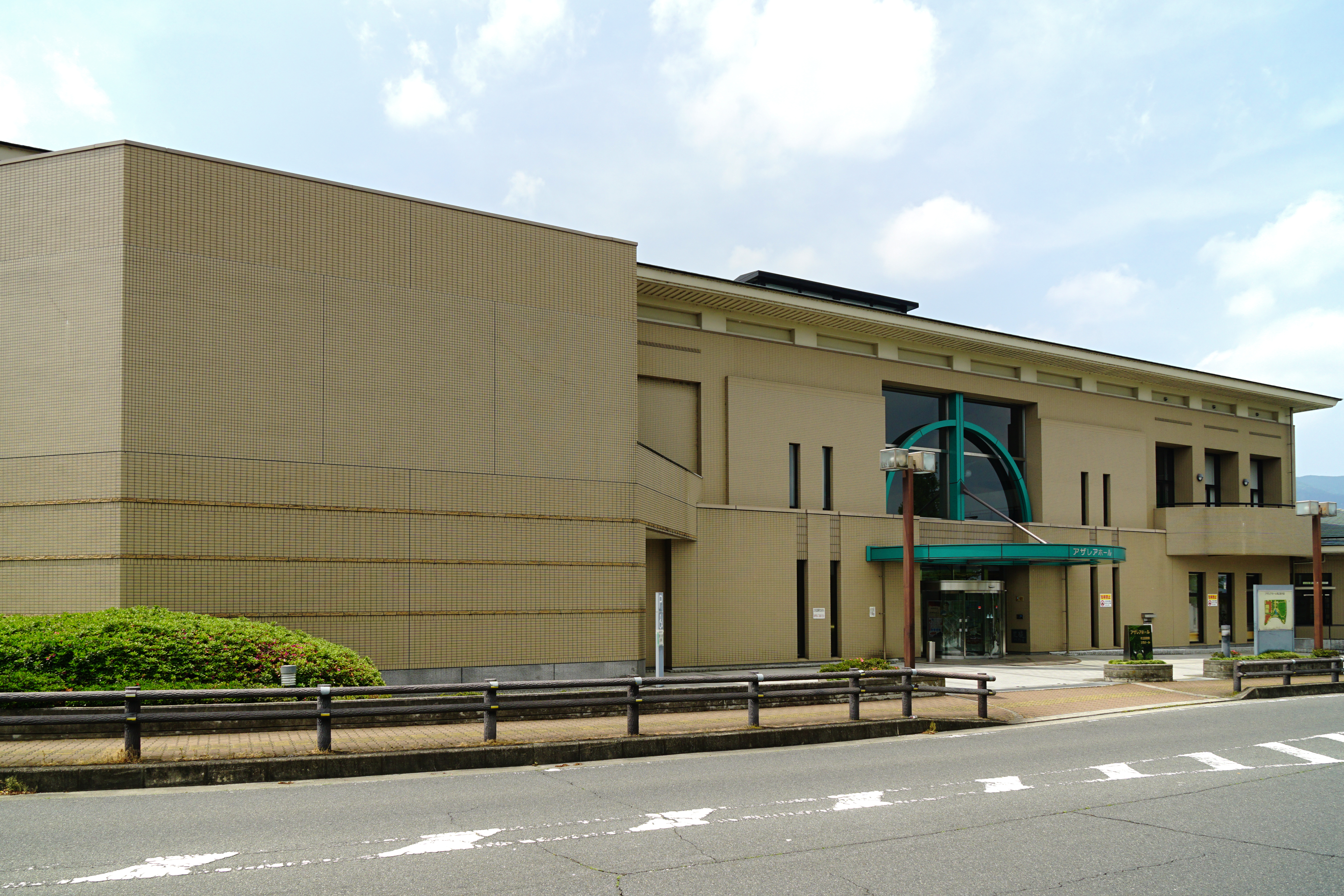 The Azalea_Hall in Gose, Nara prefecture, Japan